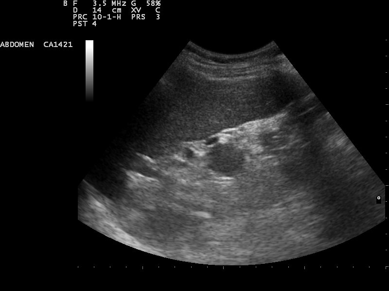 Ultrasound images of spleen